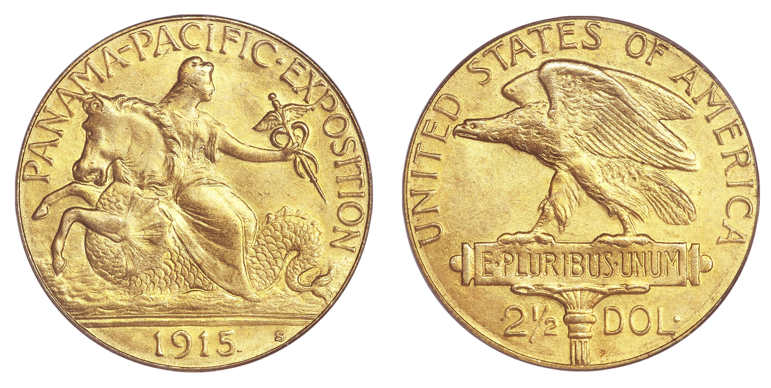 1915-S $2 1-2 Panama-Pacific Quarter Eagle(1156-4329)